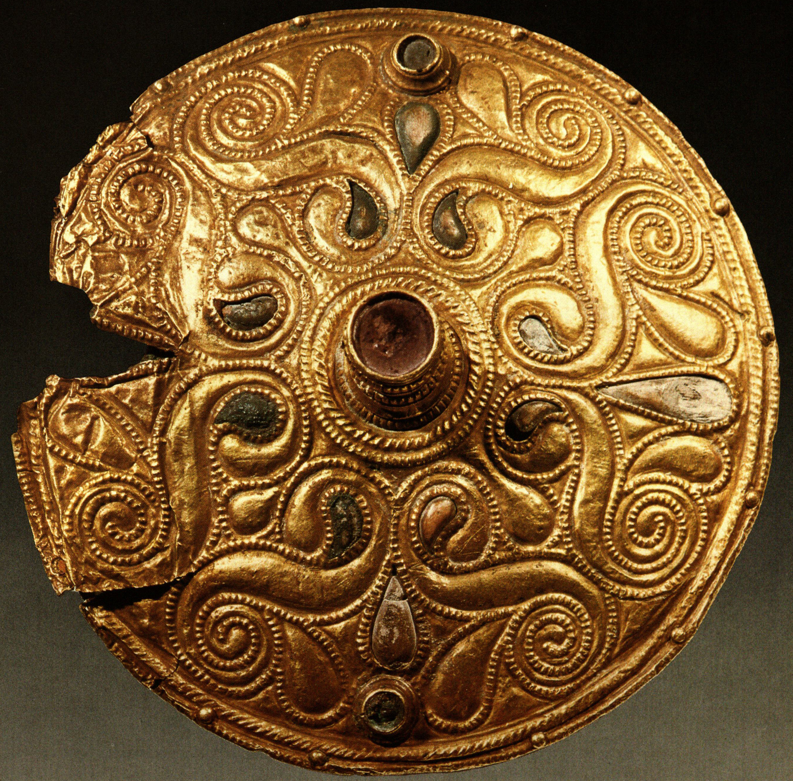 Celtic gold-plated bronze disc from Auvers-sur-Oise, Val-d'Oise, dated to early 4th century BC; on display at the Cabinet des Médailles of the Bibliothèque Nationale in Paris